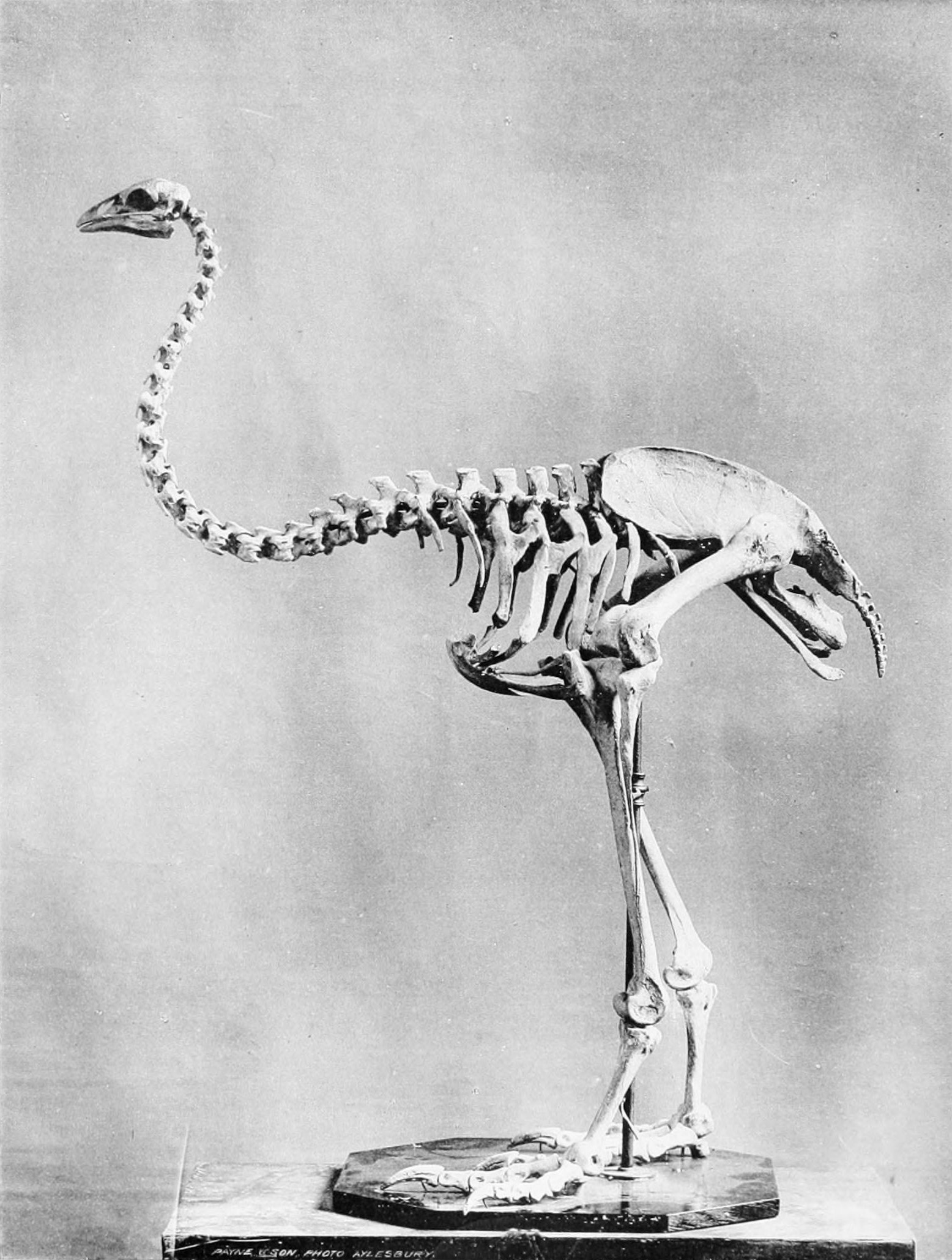 « Megalapteryx tenuipes » = Megalapteryx didinus (Upland Moa) - skeleton